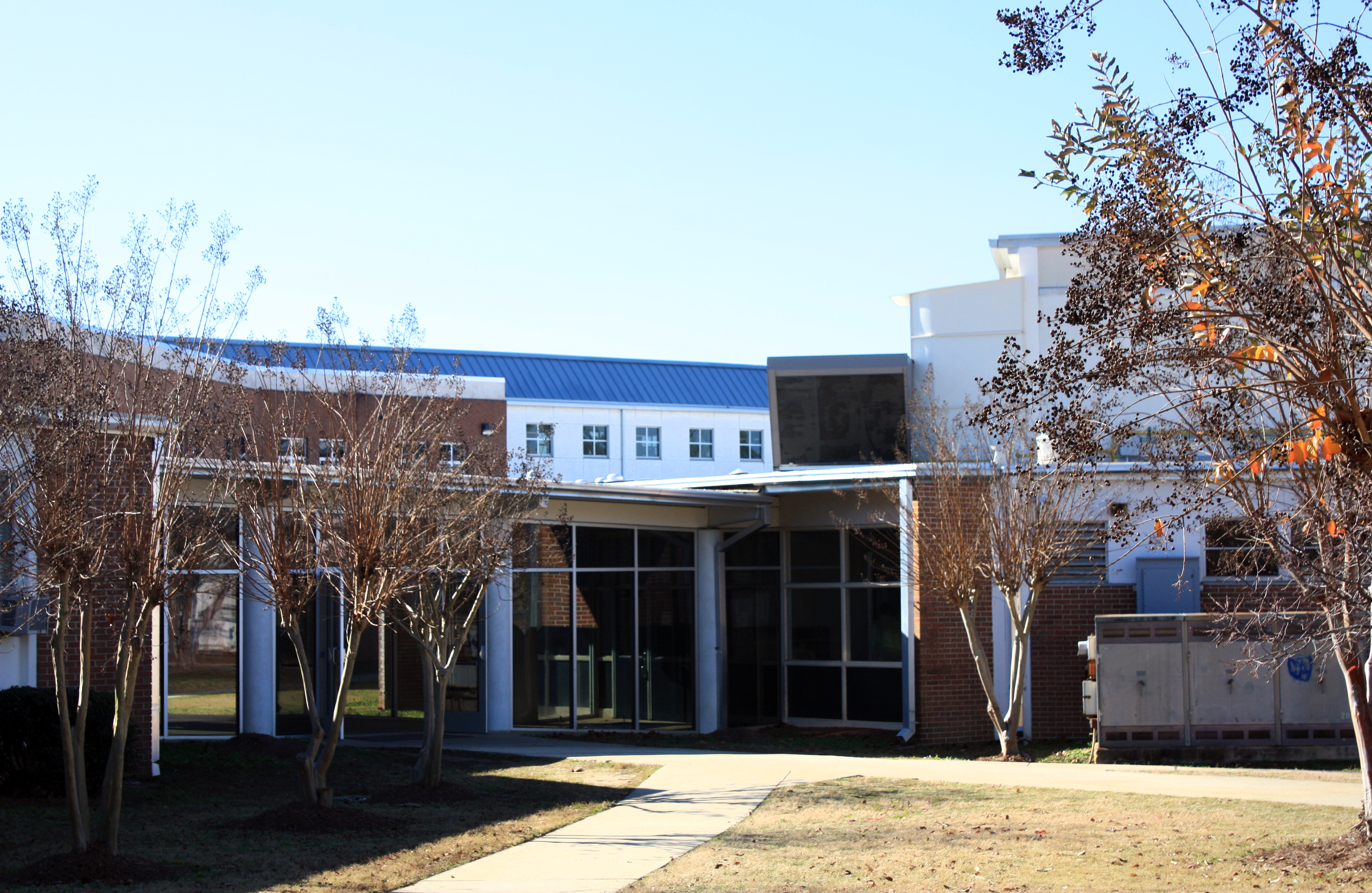 500-400-800 Buildings connections in their landscape-like position